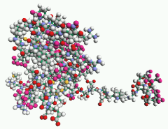 3-dimensional protein structure of the ring finger domain of equine herpes virus-1 ICP0 rendered from PDB file ICHC using ProteinScope (Ltd Ed 1.0.5) [1]